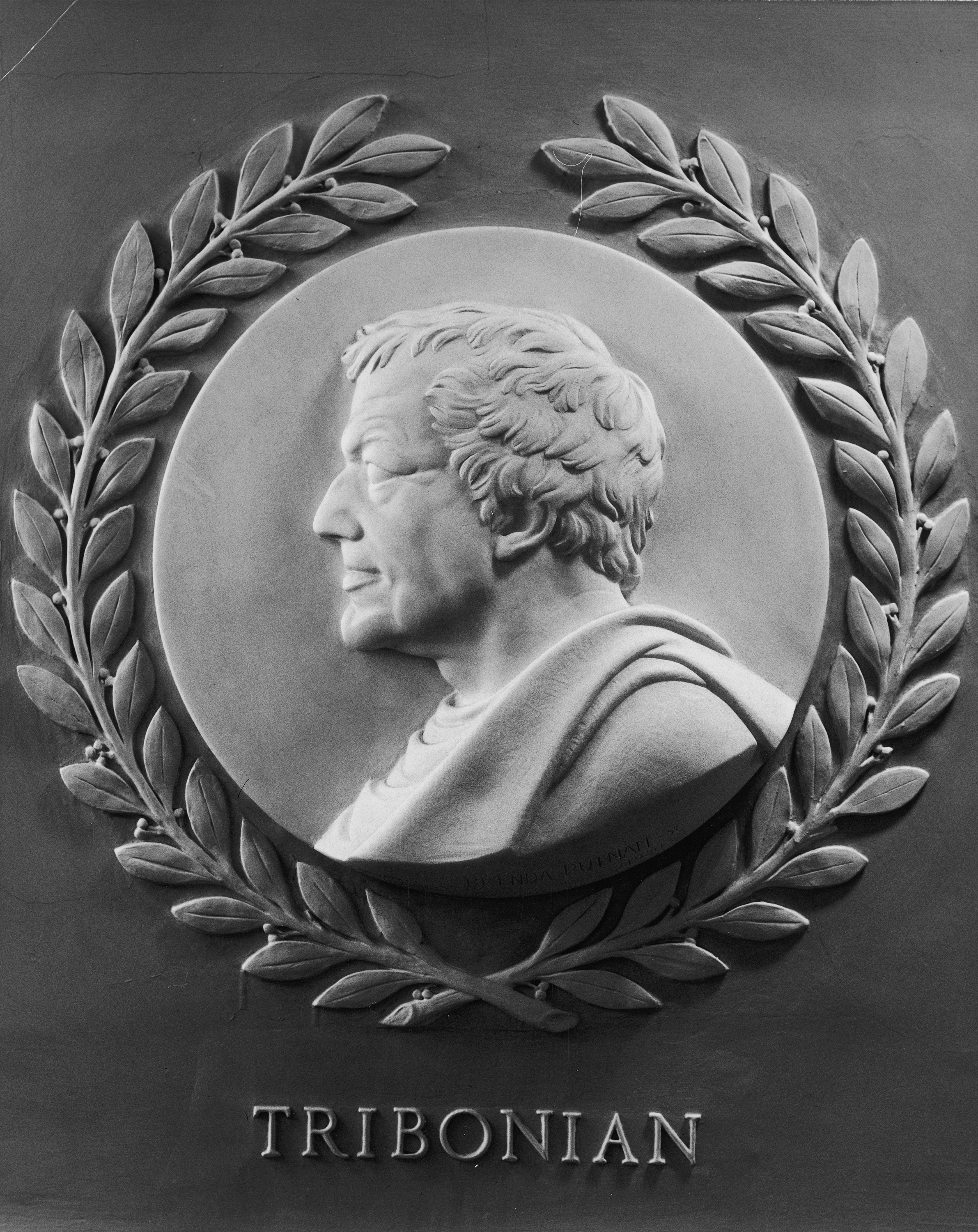 Byzantine jurist; head of the commission that codified the laws under Justinian I. Brenda Putnam Marble, 28" dia. 1950 House of Representatives Chamber